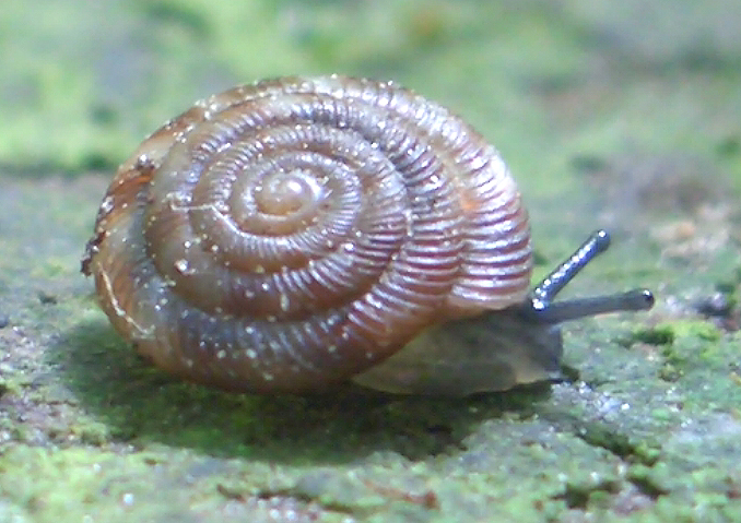 Photo of Discus rotundatus. Locality: Germany: Göttingen. Date: 26-05-2007.